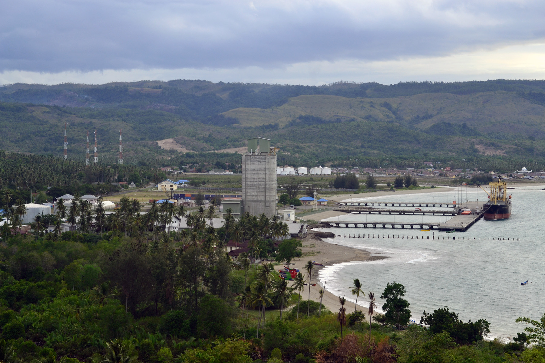 Picture of Cement Padang manufacturing.